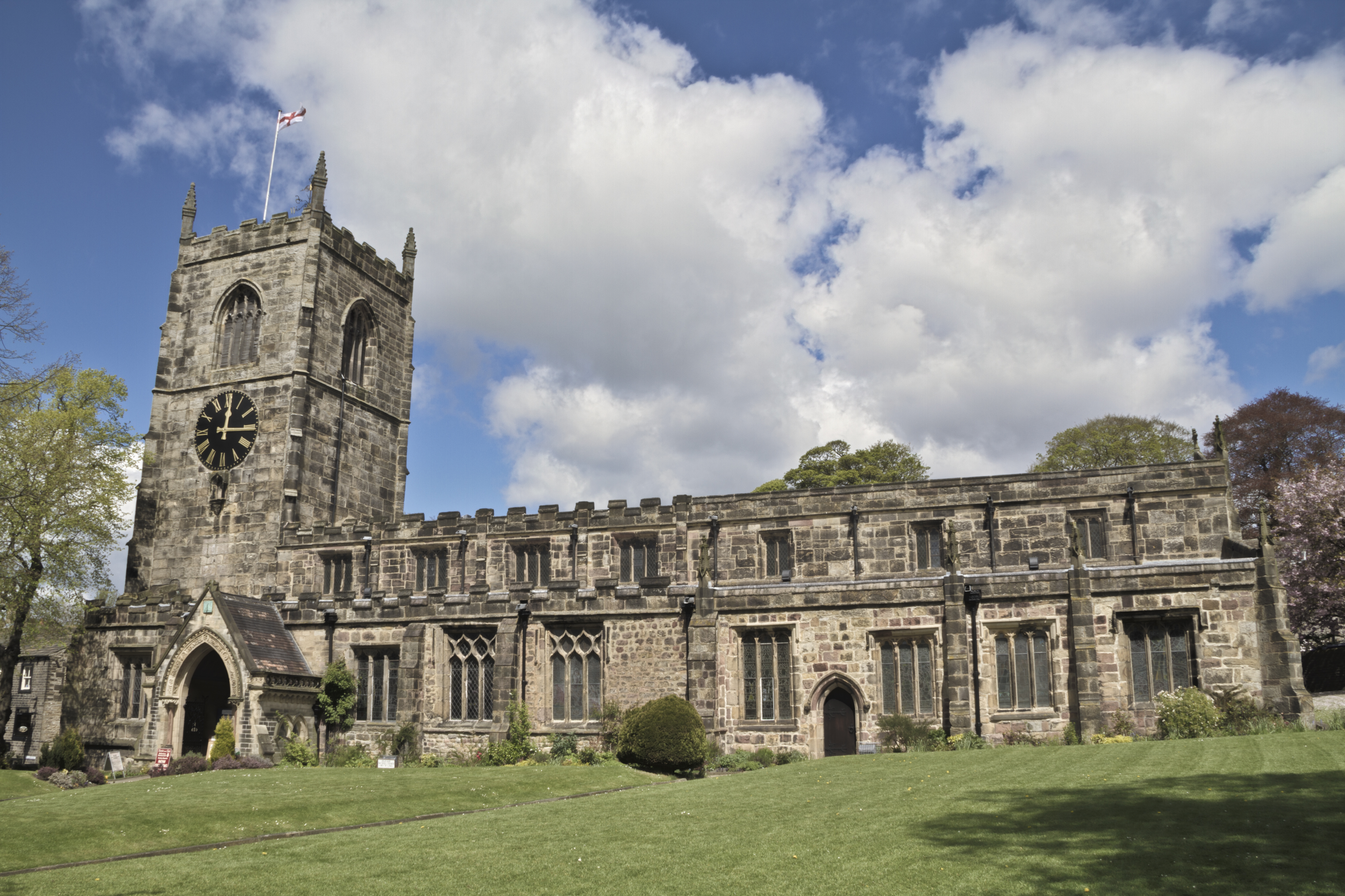 Holy Trinity parish church, Skipton, North Yorkshire, seen from the south